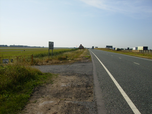 The A168 adjacent to Dishforth Airfield. Dishforth is now being used as a helicopter training establishment.